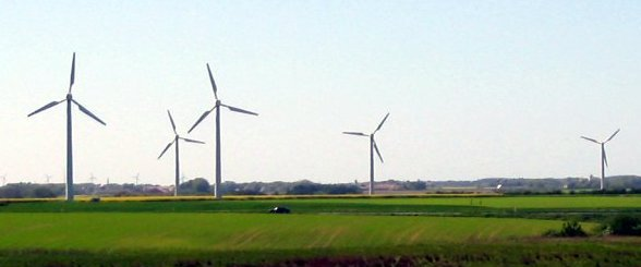 Wind turbines (Vendsyssel, Denmark, 2004)